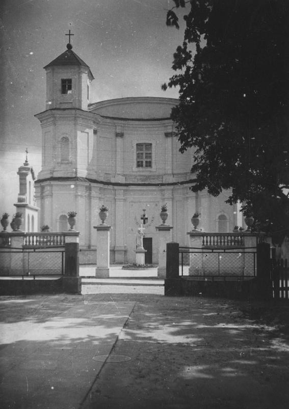 General view of the church from the front